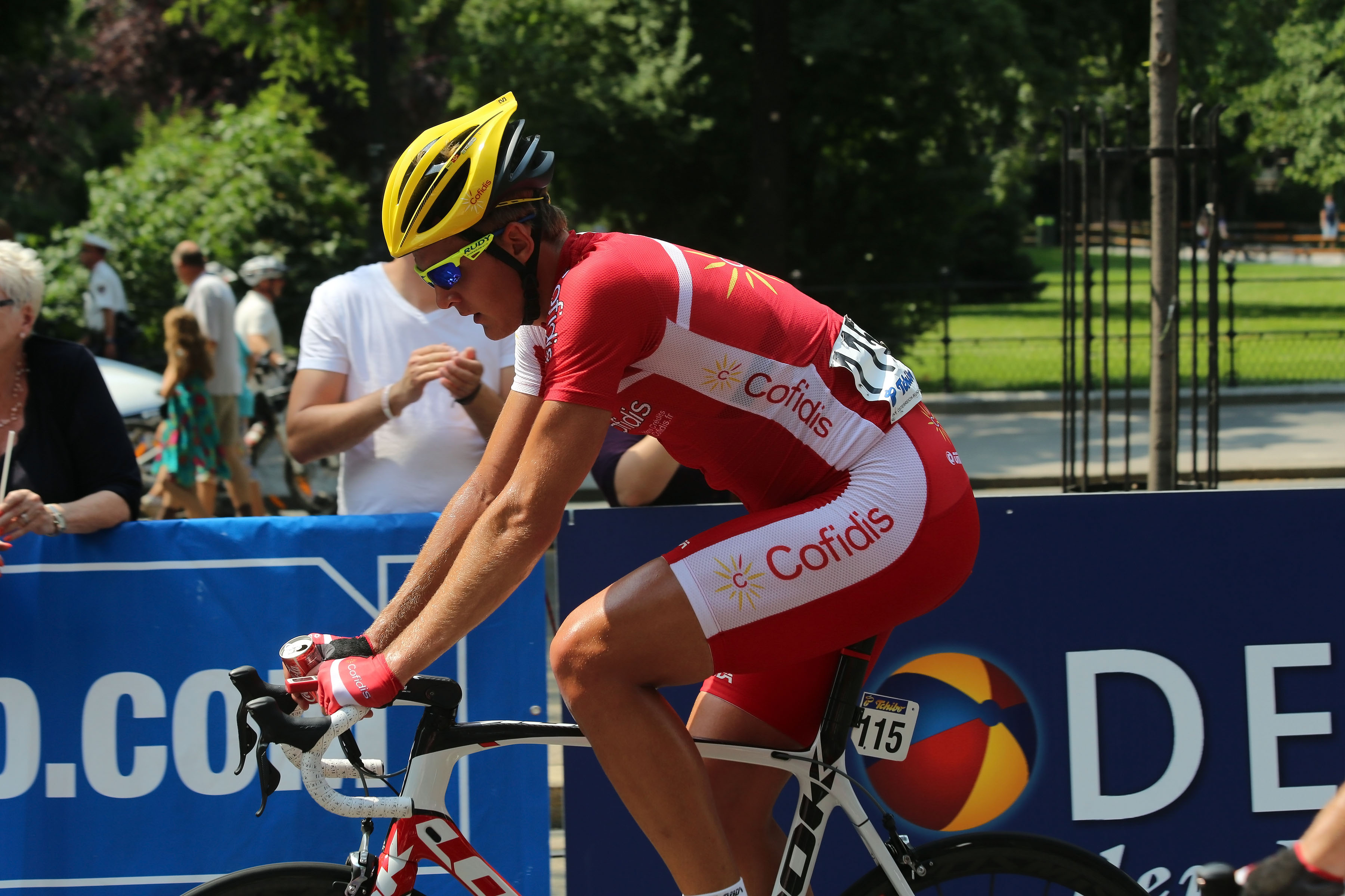 Gert Jõeäär after finishing the final stage of the Tour of Austria in Vienna, Austria.